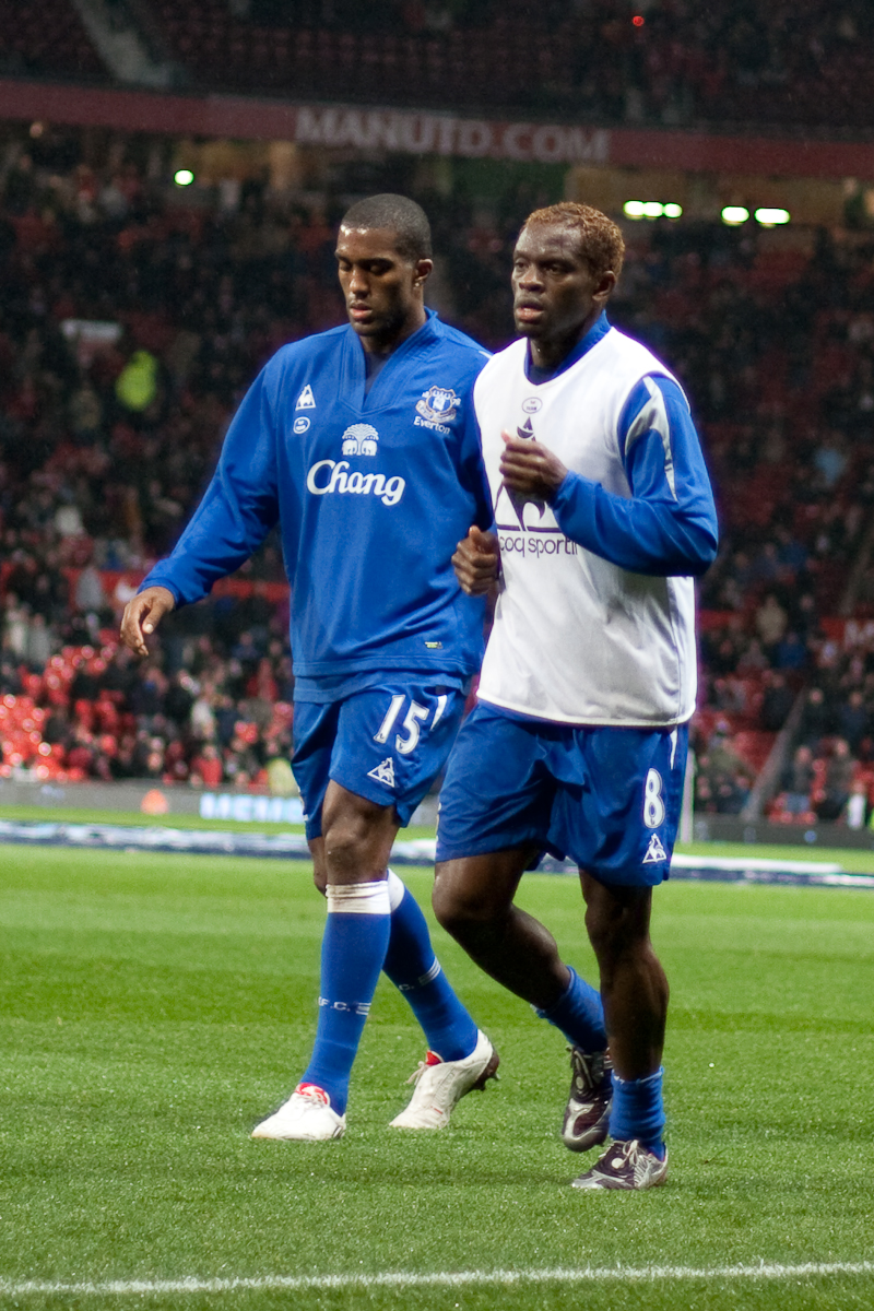 Sylvain Distin and Louis Saha of Everton before a match against Manchester United. At Old Trafford, Manchester, November 2009.